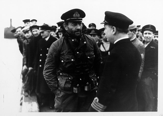 Lieutenant Commander George Phillips wearing an 'Ursula suit', named after the submarine he was commanding. Seen here on return from patrol in 1939 when the submarine attacked the cruiser 'Leipzig' in the North Sea.